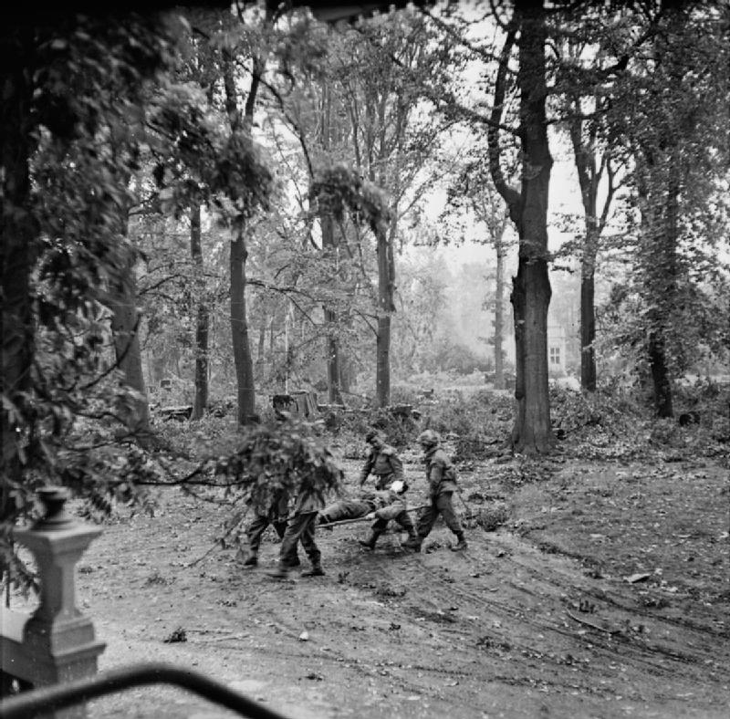 The British Airborne Division at Arnhem and Oosterbeek in Holland A wounded man being carried away from the Divisional Administration Area by stretcher (note the stocks of ammunition and fuel dumped in the background) at Oosterbeek.